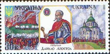 Stamp of Ukraine